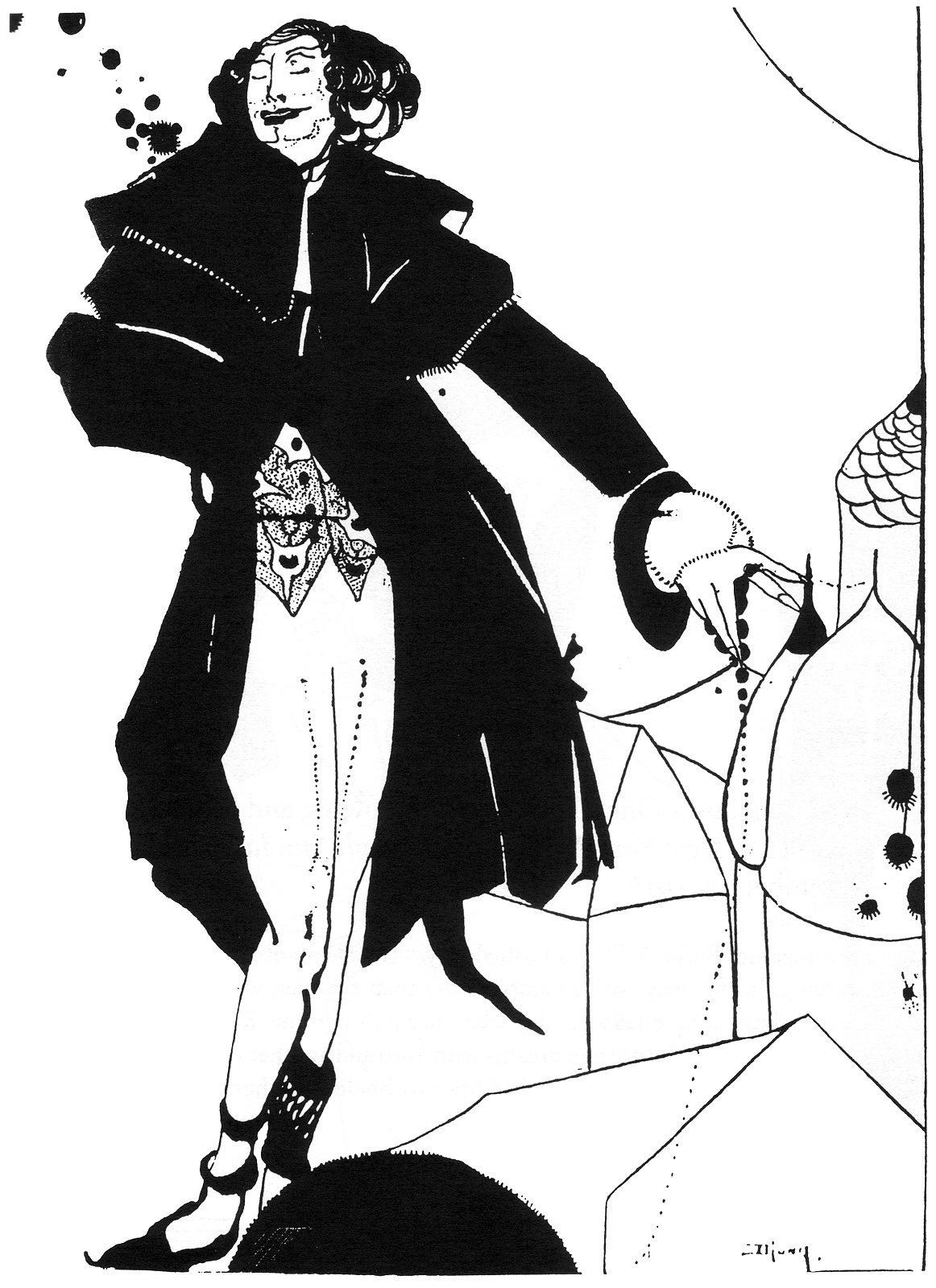 "'After All, One Must Be Faithful to One's Bracelets'"